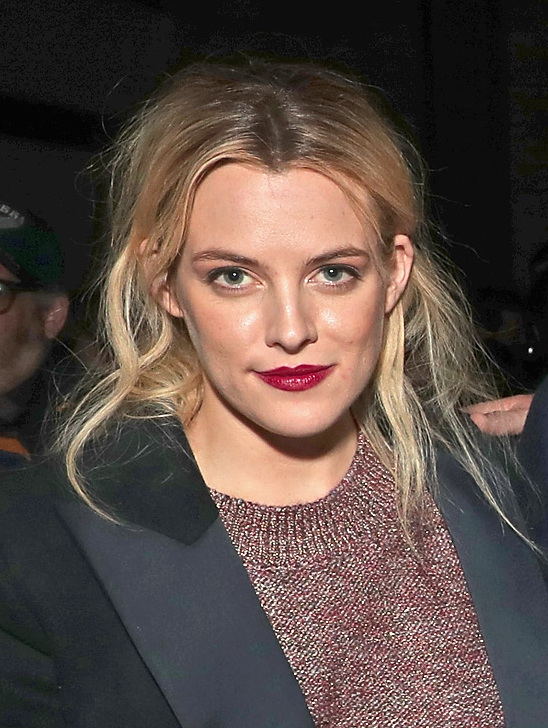 The Discovery premiere during day 2 of the 2017 Sundance Film Festival at Eccles Center Theatre on January 20, 2017 in Park City, Utah